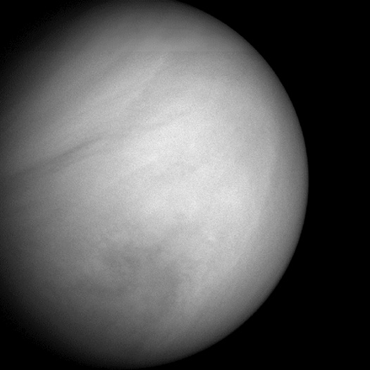 "During the MESSENGER mission's second flyby of Venus, the Wide Angle Camera (WAC) of the Mercury Dual Imaging System (MDIS) acquired images through all of its 11 narrow-band color filters of the approaching planet. The surface of Venus is shrouded in clouds, and the WAC images returned from the encounter show this cloud covered view, as seen in a previously released image. However, by processing the WAC images and "stretching" the gray scale used to display the images, subtle differences in the clouds of Venus are revealed, as seen in the image here. This WAC image was taken through a narrow-band filter centered at 630 nanometers, and in this stretched image, global circulation patterns can be seen in the atmosphere of Venus."